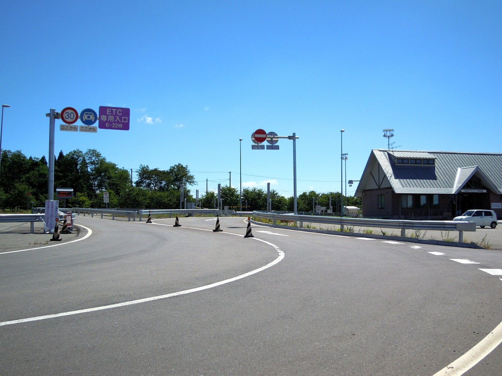 This Interchange, Nishisenboku Smart Interchange, is on Akita Expressway, in Daisen City Akita Prefecture, Japan.